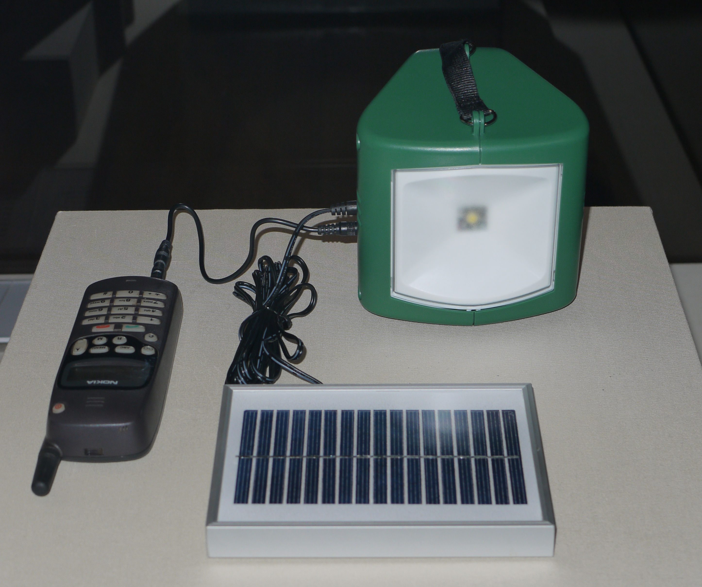 Photo of a solar powered lamp